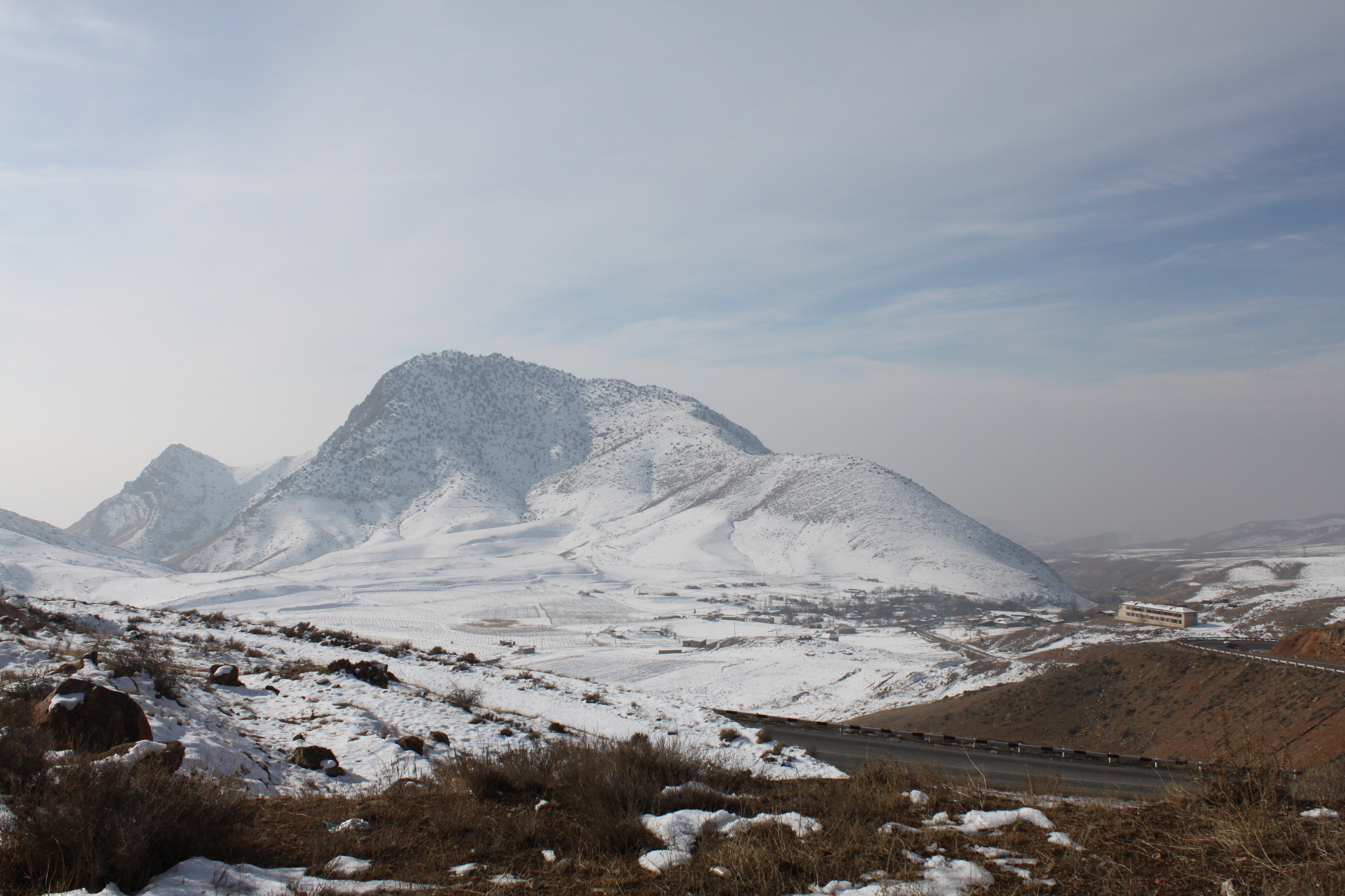 View of the Tigranashen village of Armenia from Armenia's main north-south highway.